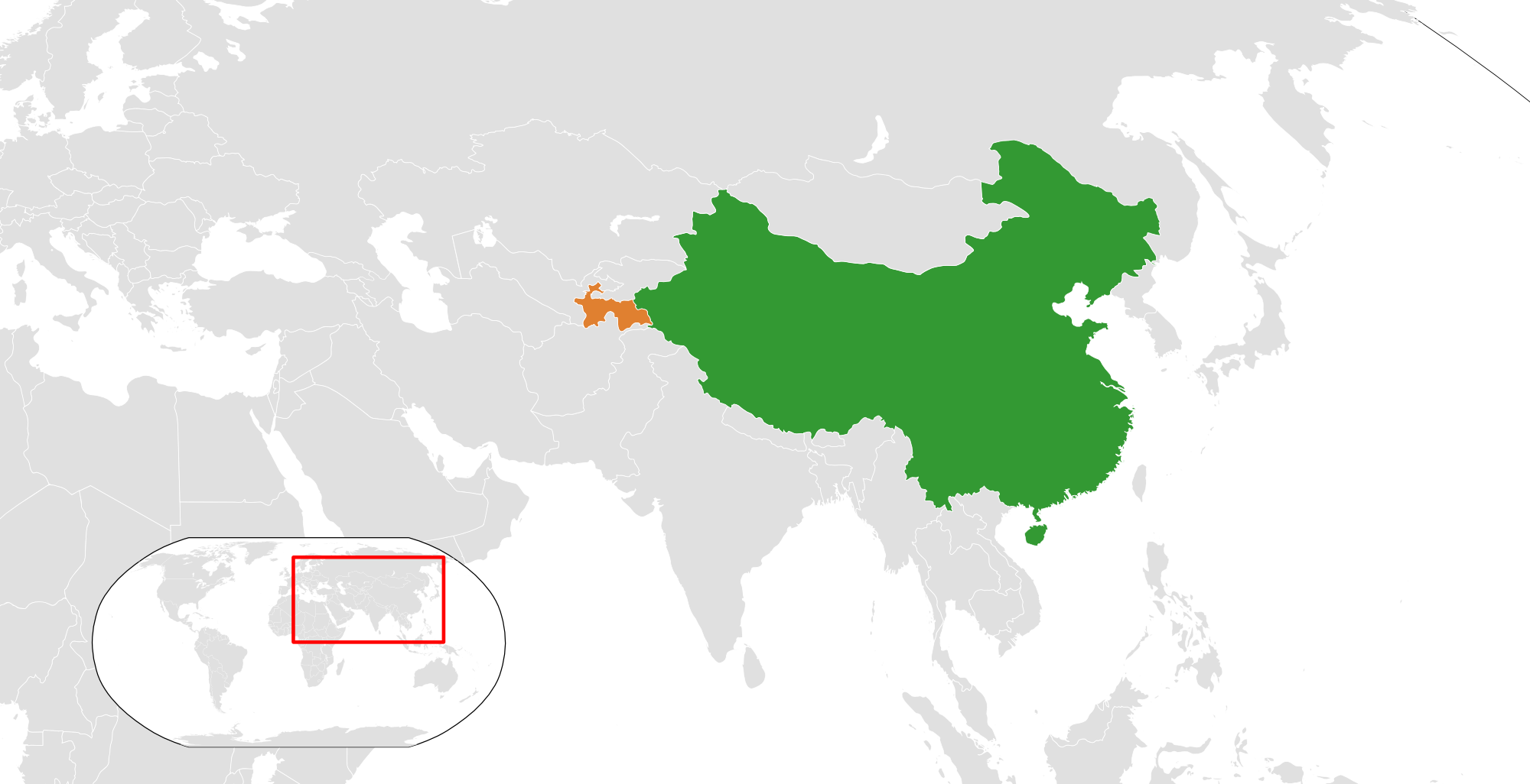 China Tajikistan locator map